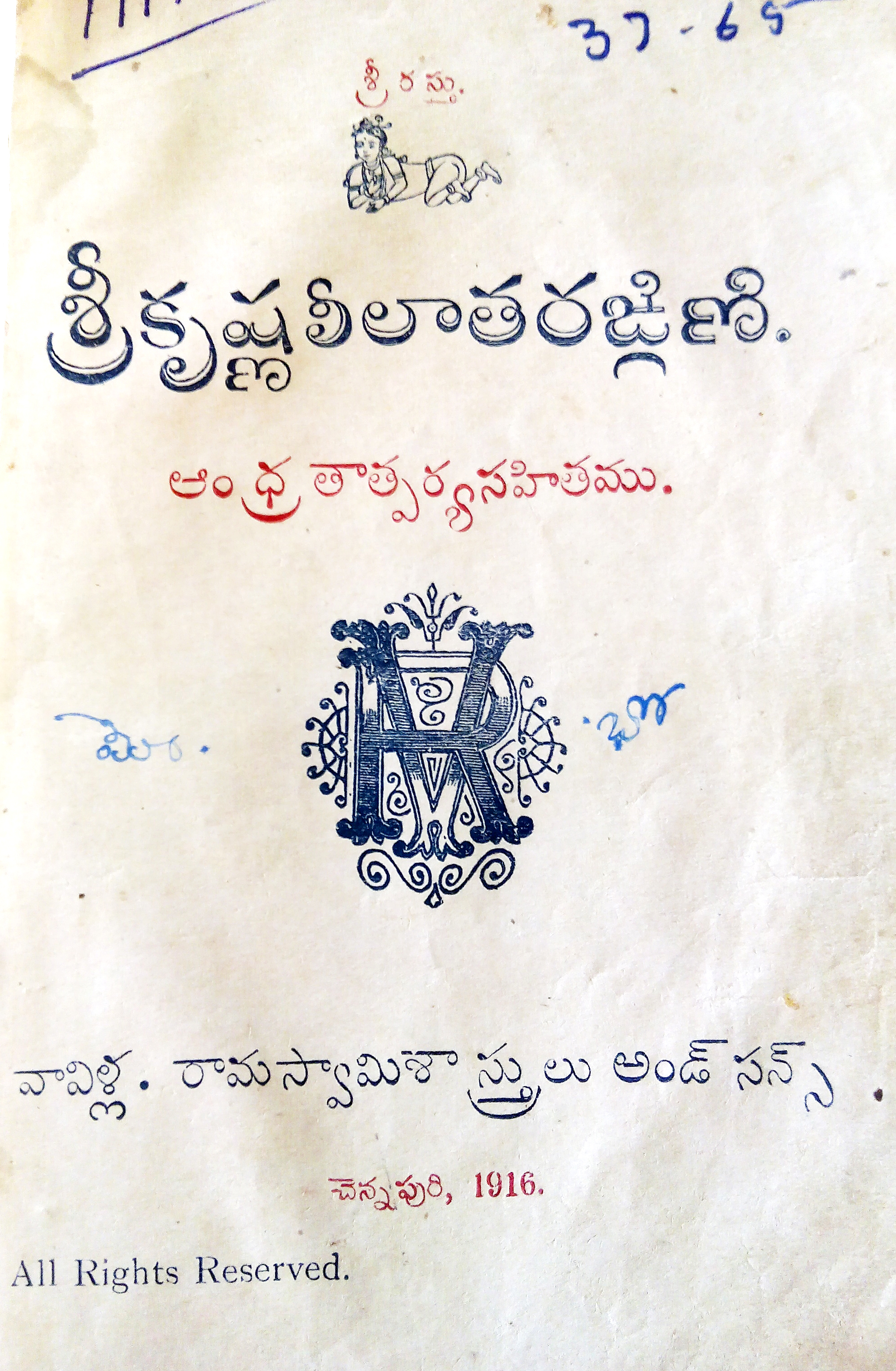 Sri krishna leelatarangini book cover page